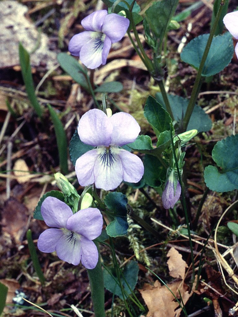 Common Dog Violet, Common Dog-violet